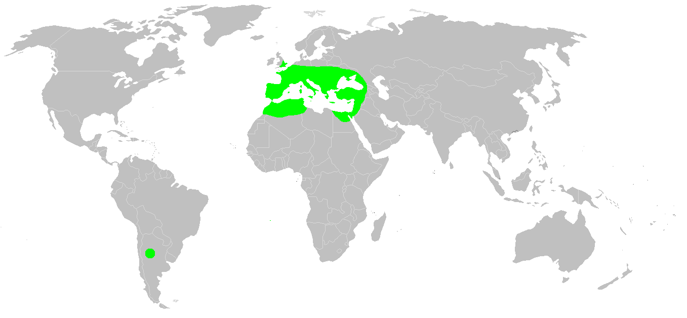 Known world distribution of Segestria florentina, after data from John Murphy, 2006.